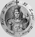 Portrait of Minchua, an indean ruler of muisca.